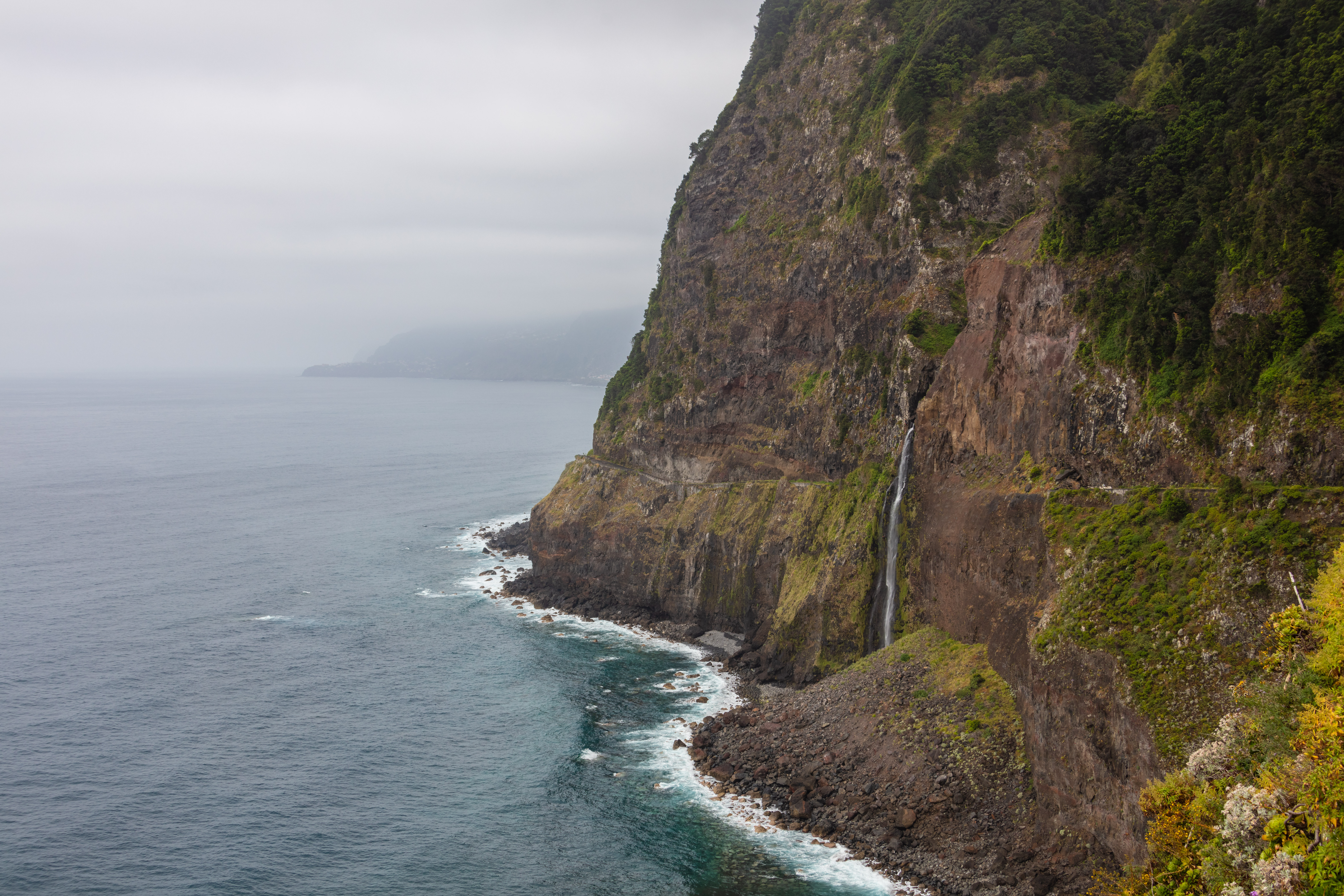 Véu da Noiva Waterfall, Seixal, Madeira, Portugal